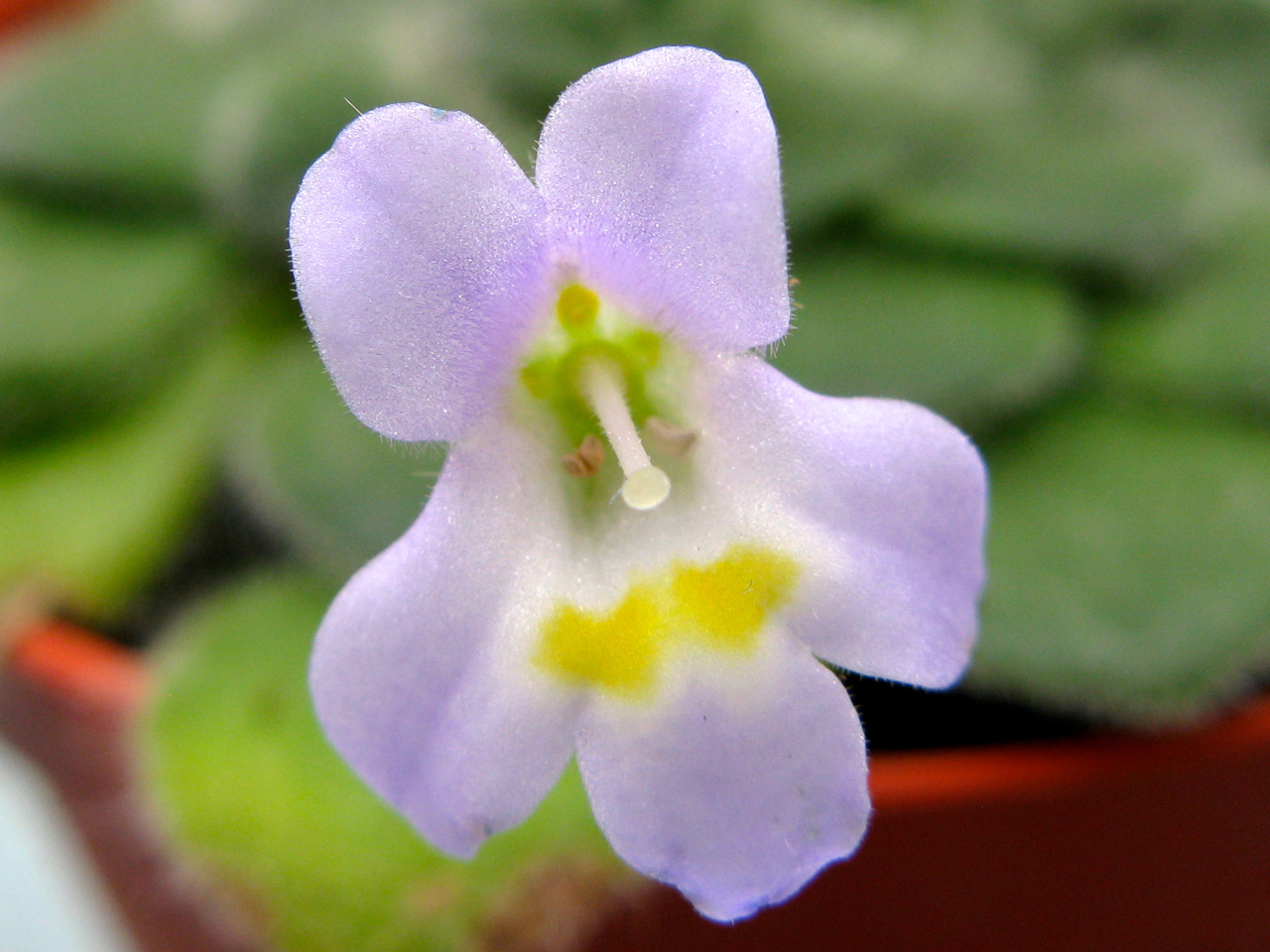 Flower, front view